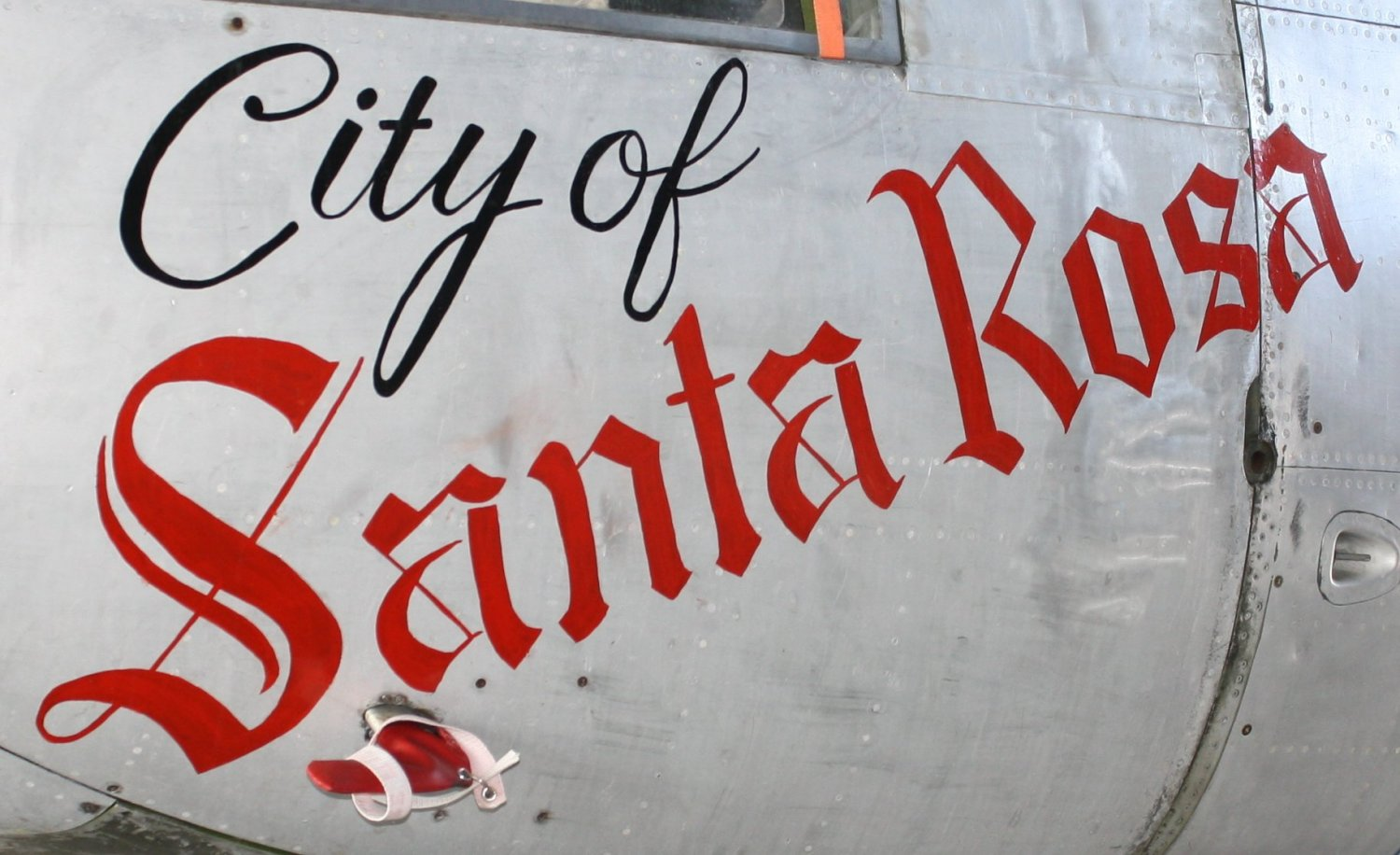 City of Santa Rosa A-26 Invader WW II attack bomber, Pacific Air Coast Museum, Charles M. Schulz Sonoma County Airport, Santa Rosa, California